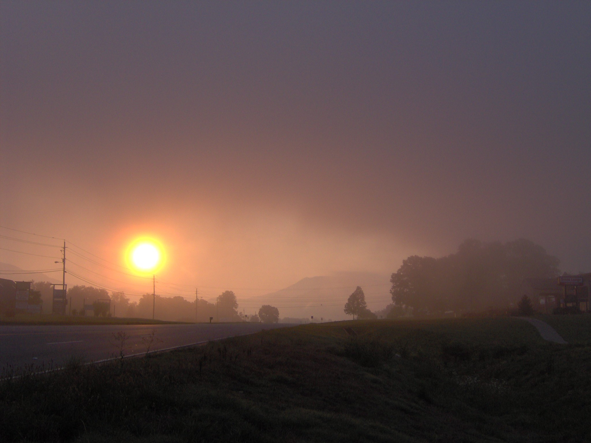 Sunrise over U.S. Route 321 in Townsend, Tennessee (Tuckaleechee Cove). Rich Mountain, in the Great Smokies, is visible in the distance. Fog from the mountains often hangs over the cove in the morning, creating a tunnel effect.